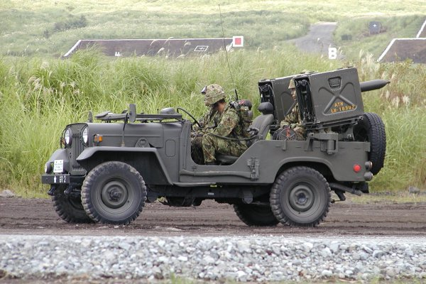 A Mitsubishi Type 73 Truck carries two Kawasaki Type 64 anti-tank missile pods